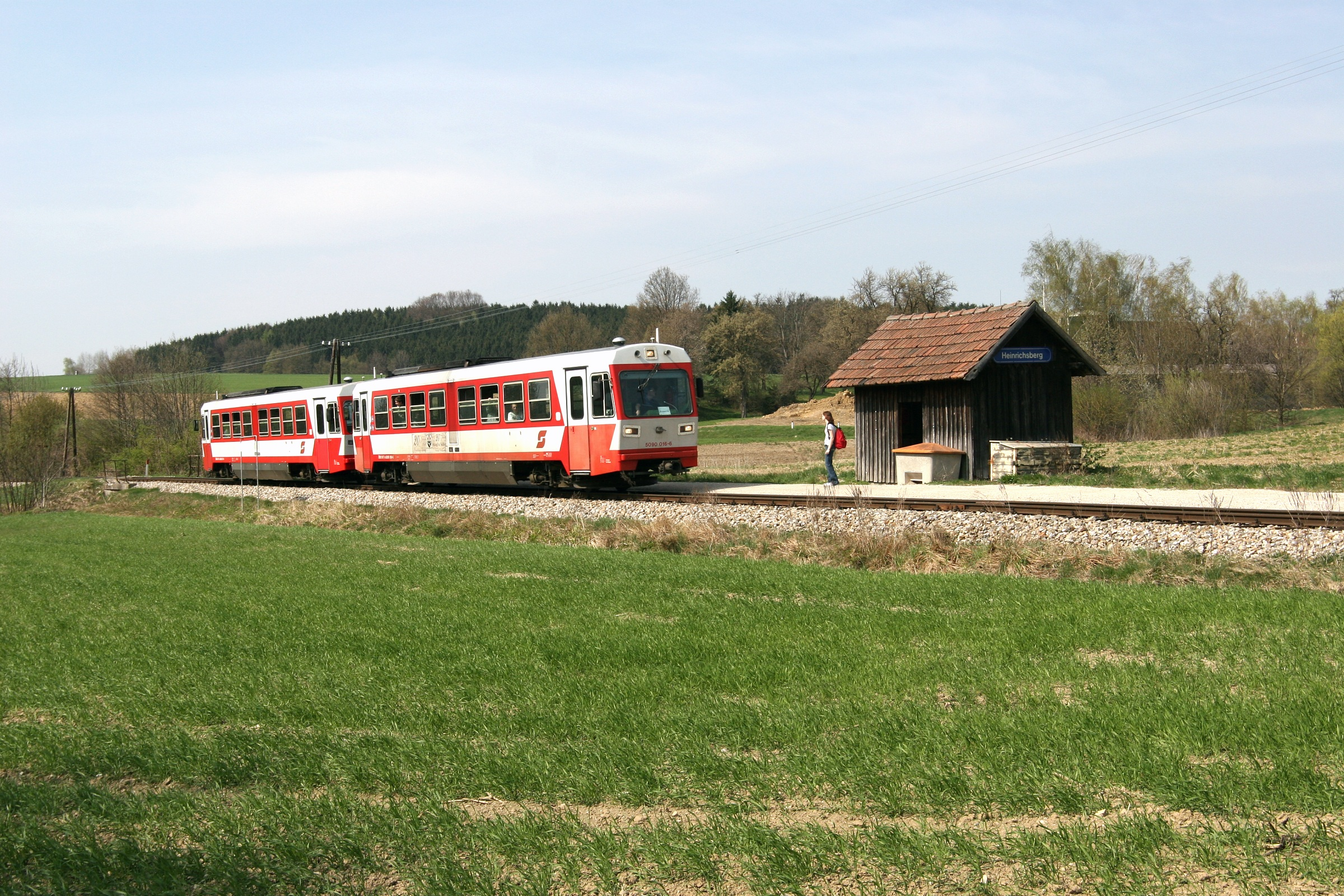 Two 5090 DMUs at Heinrichsberg halt on the Ober-Grafendorf to Mank line